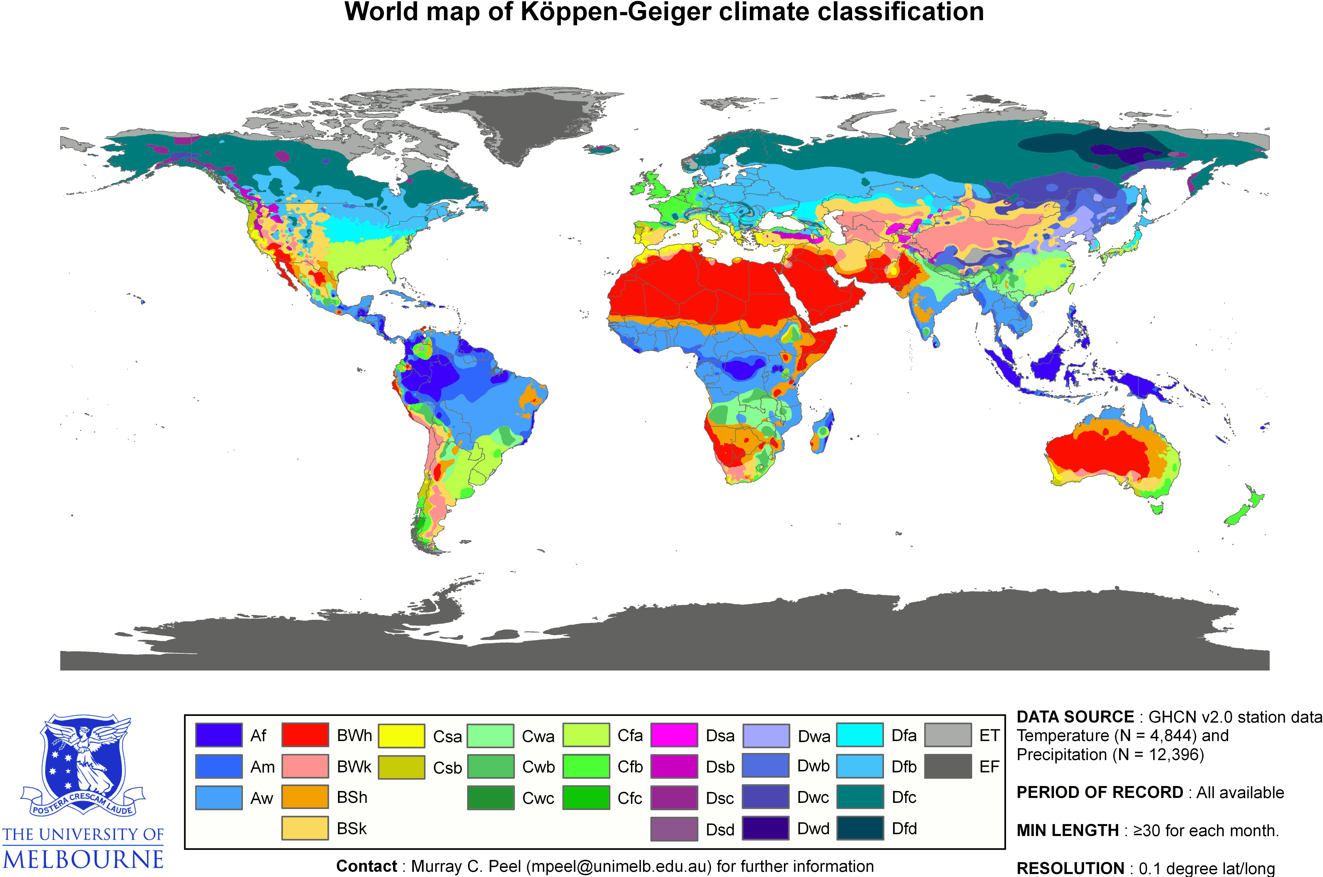 Updated world map of the Köppen-Geiger climate classification.